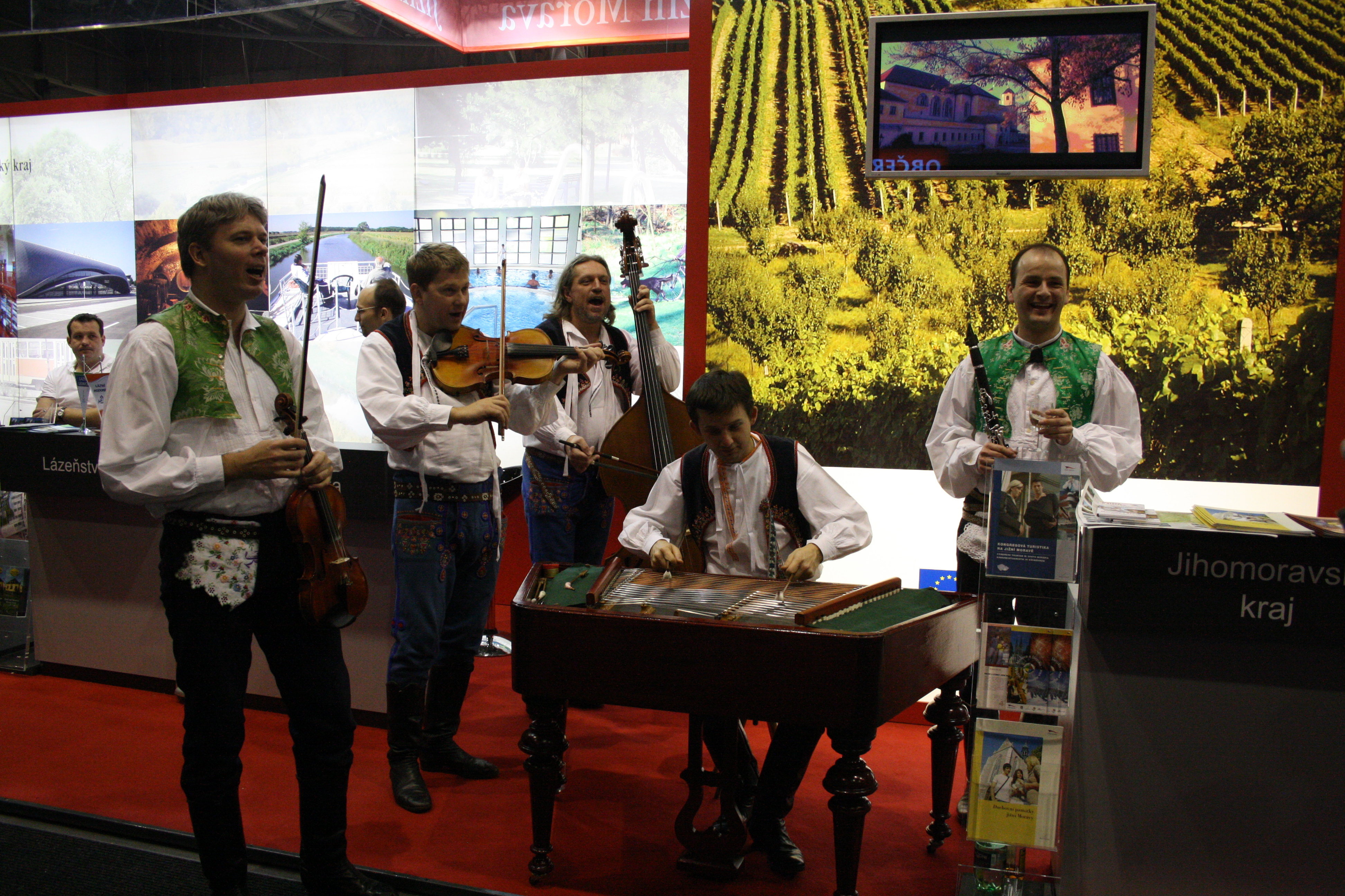 Presentation of various touristic destinations of Czech Republic.